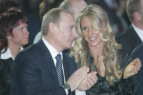 MOSCOW. At the 85th anniversary celebration of the Central Army Sports Club (CSKA). With tennis player Yelena Dementyeva.